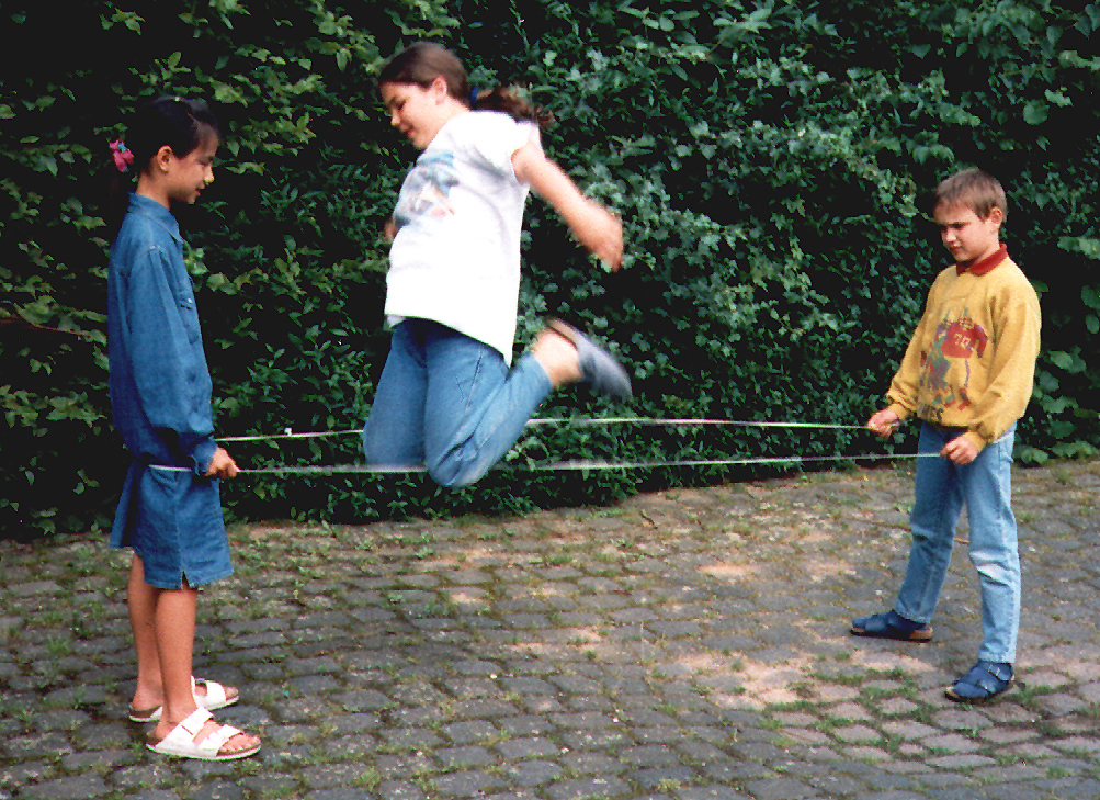 Chinese jump rope played by children in Krefeld, image 2.